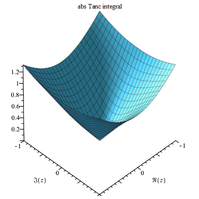 Tanc integral abs plot